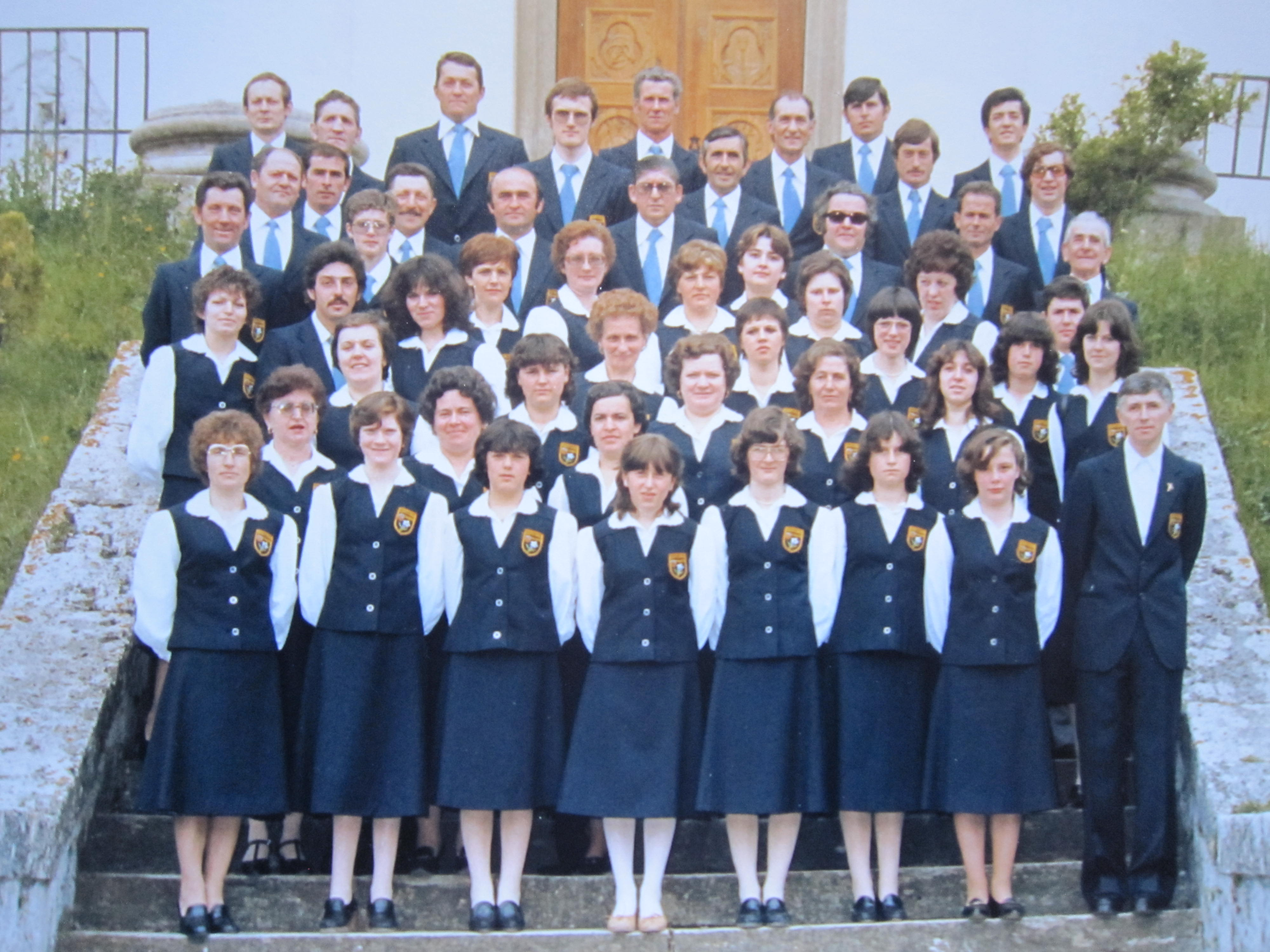 foto del gruppo corale di Paularo